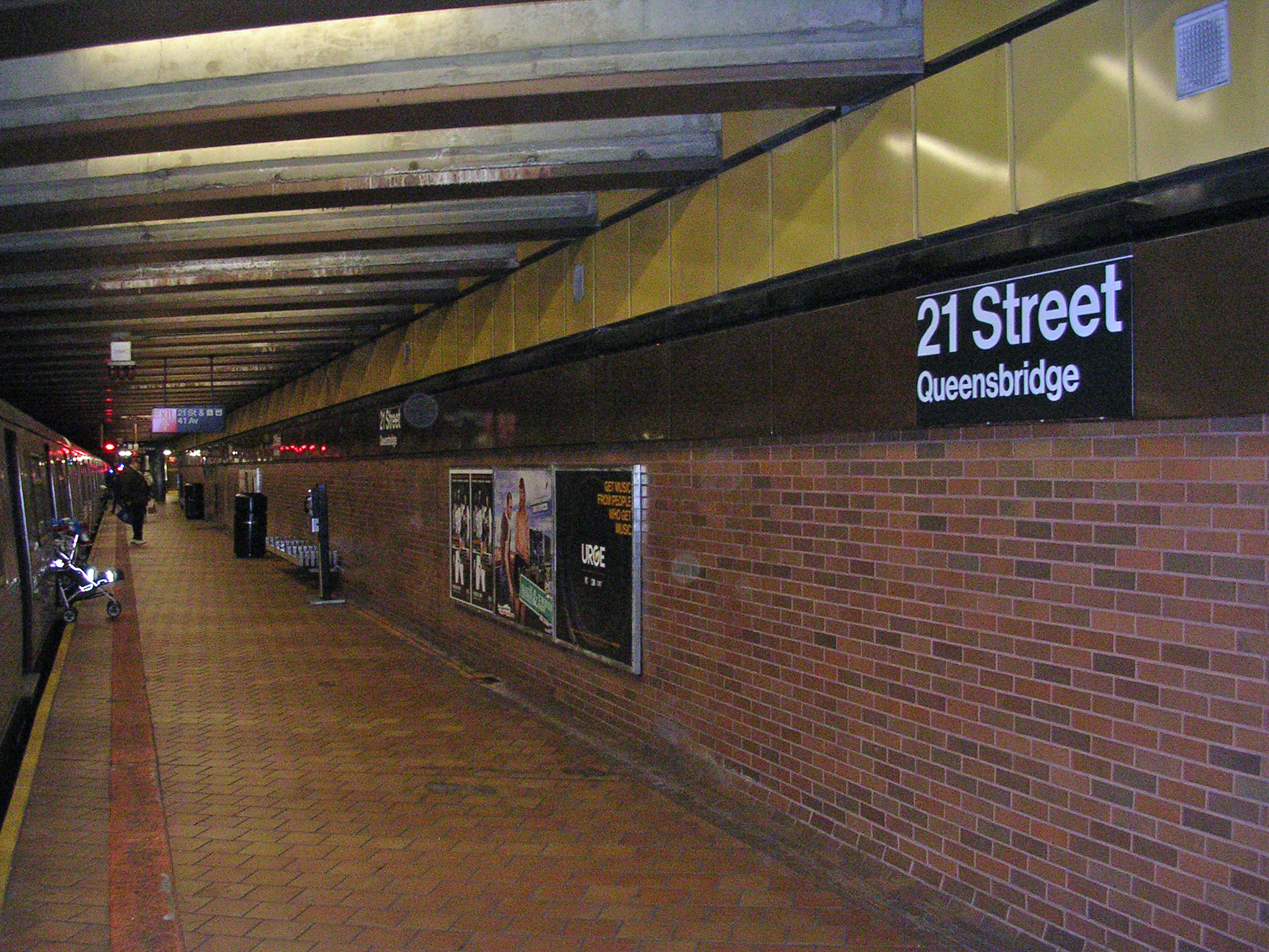 21st-Queensbridge_Subway_Station by David Shankbone, January 15, 2007.